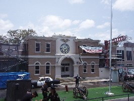 Scène from the Police Academy Stunt Show